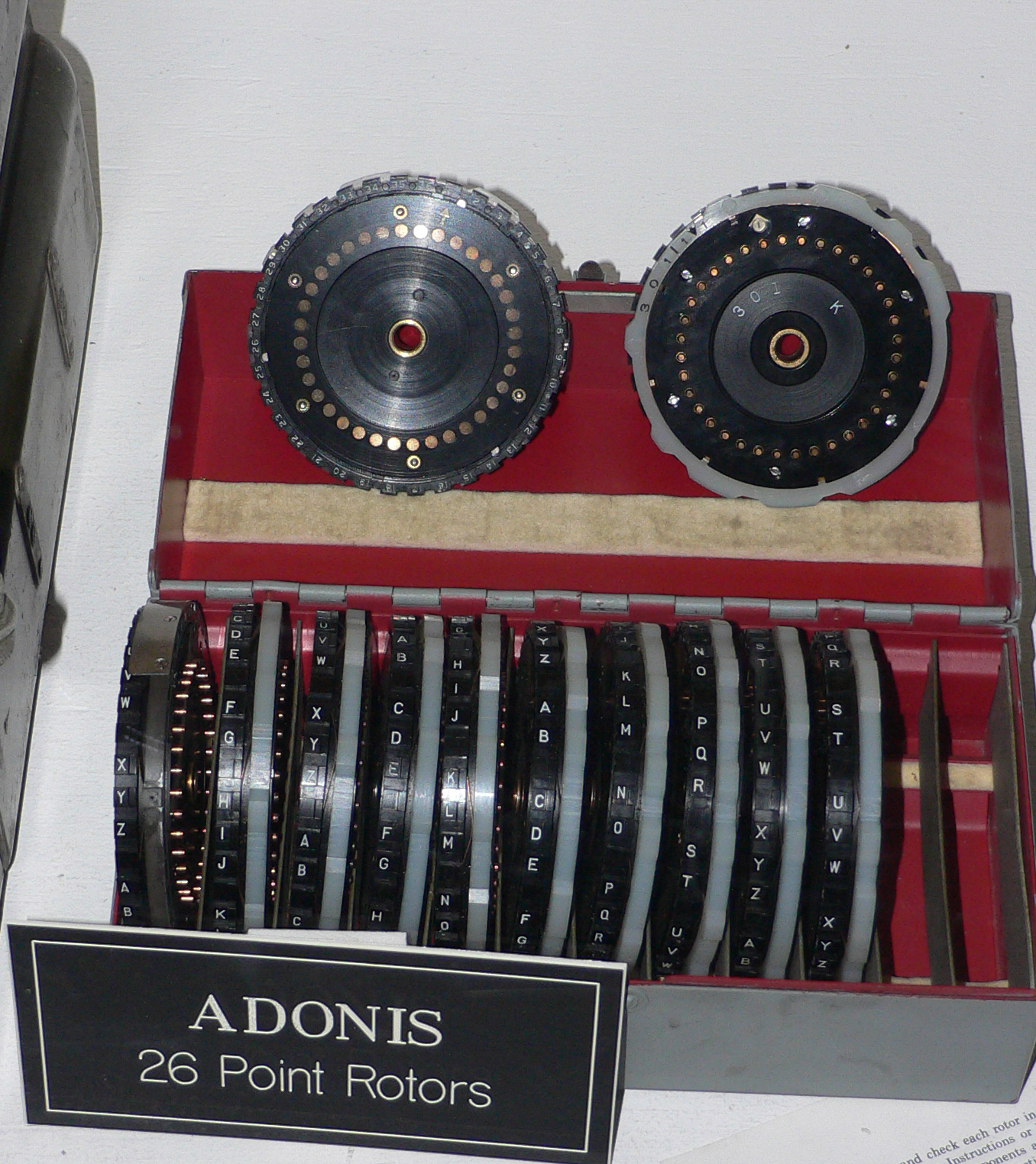 Pictures taken by myself at the US National Cryptologic Museum.